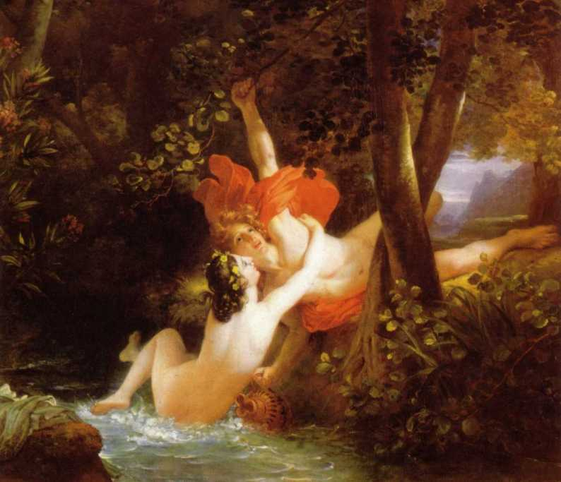 MAHB - Bayeux : Hylas et la nymphe de François Gérard